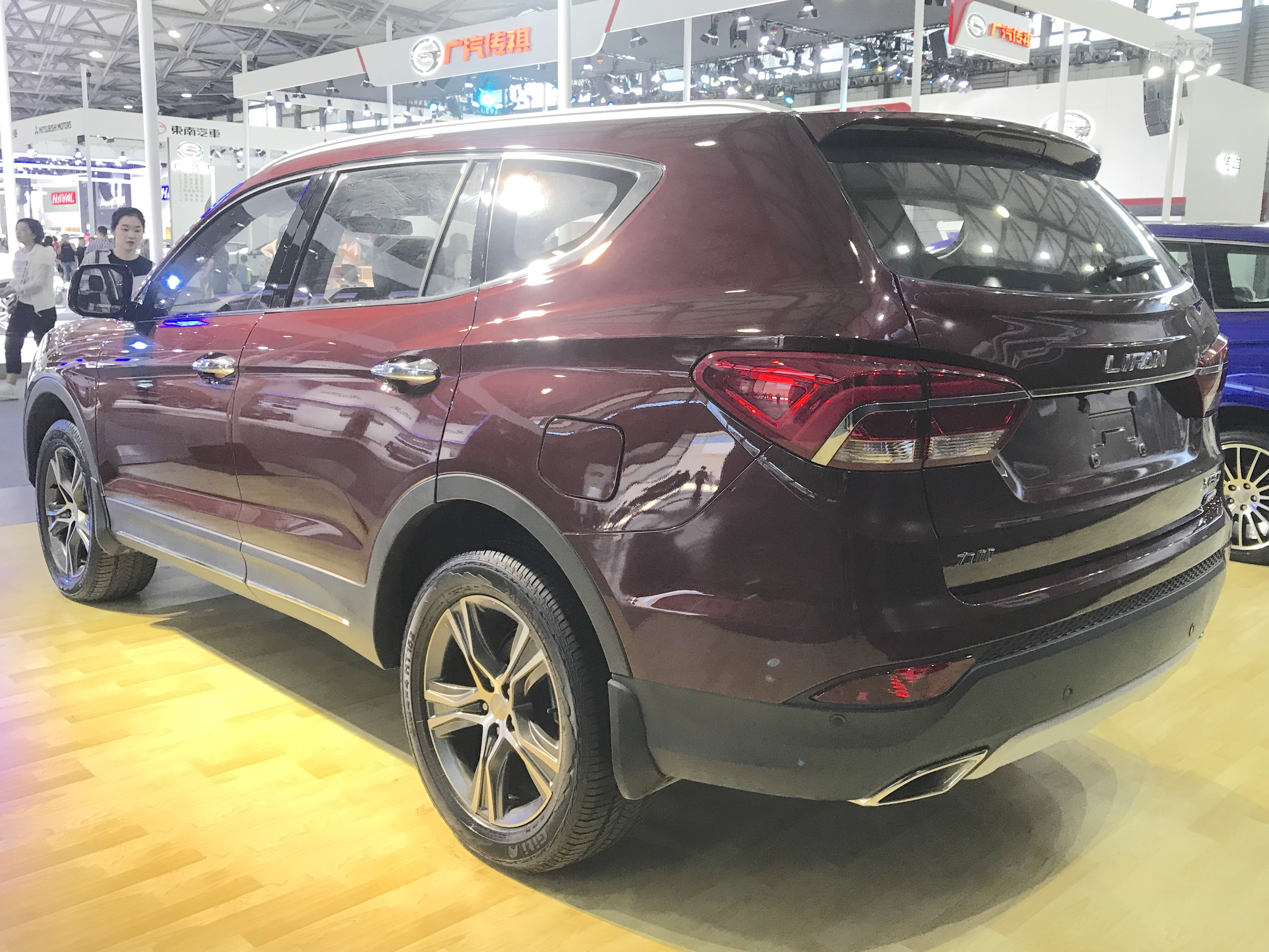 Lifan X80 rear